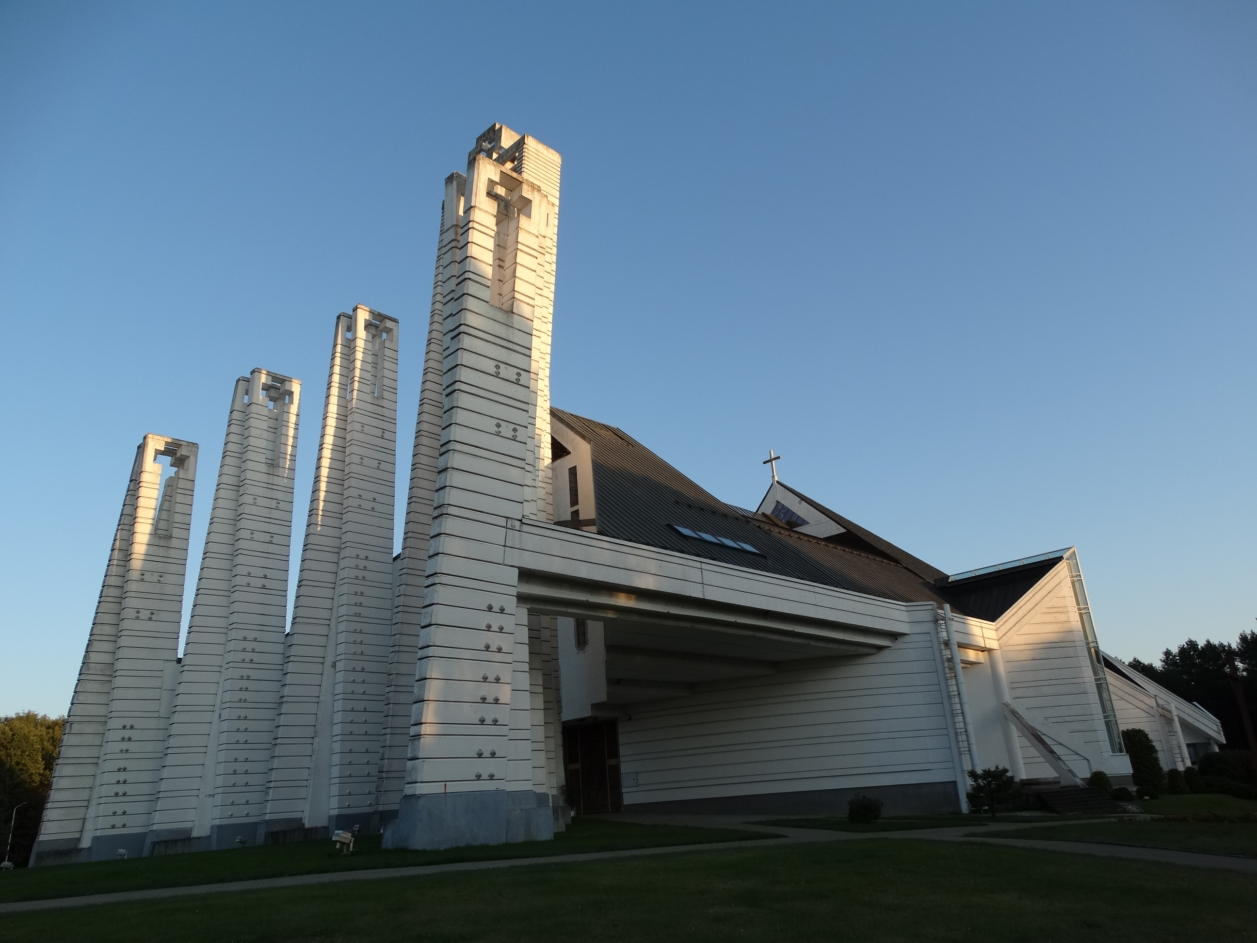 Roman Catholic Church of Blessed Virgin Mary, Queen of Martyrs, Elektrėnai, Lithuania